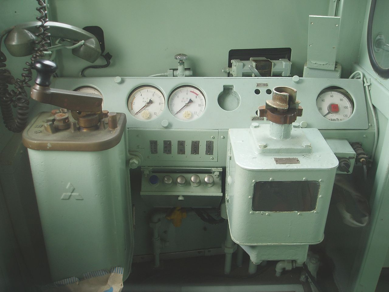 Cockpit of Odakyu Electric Railway,2600 series(2658).